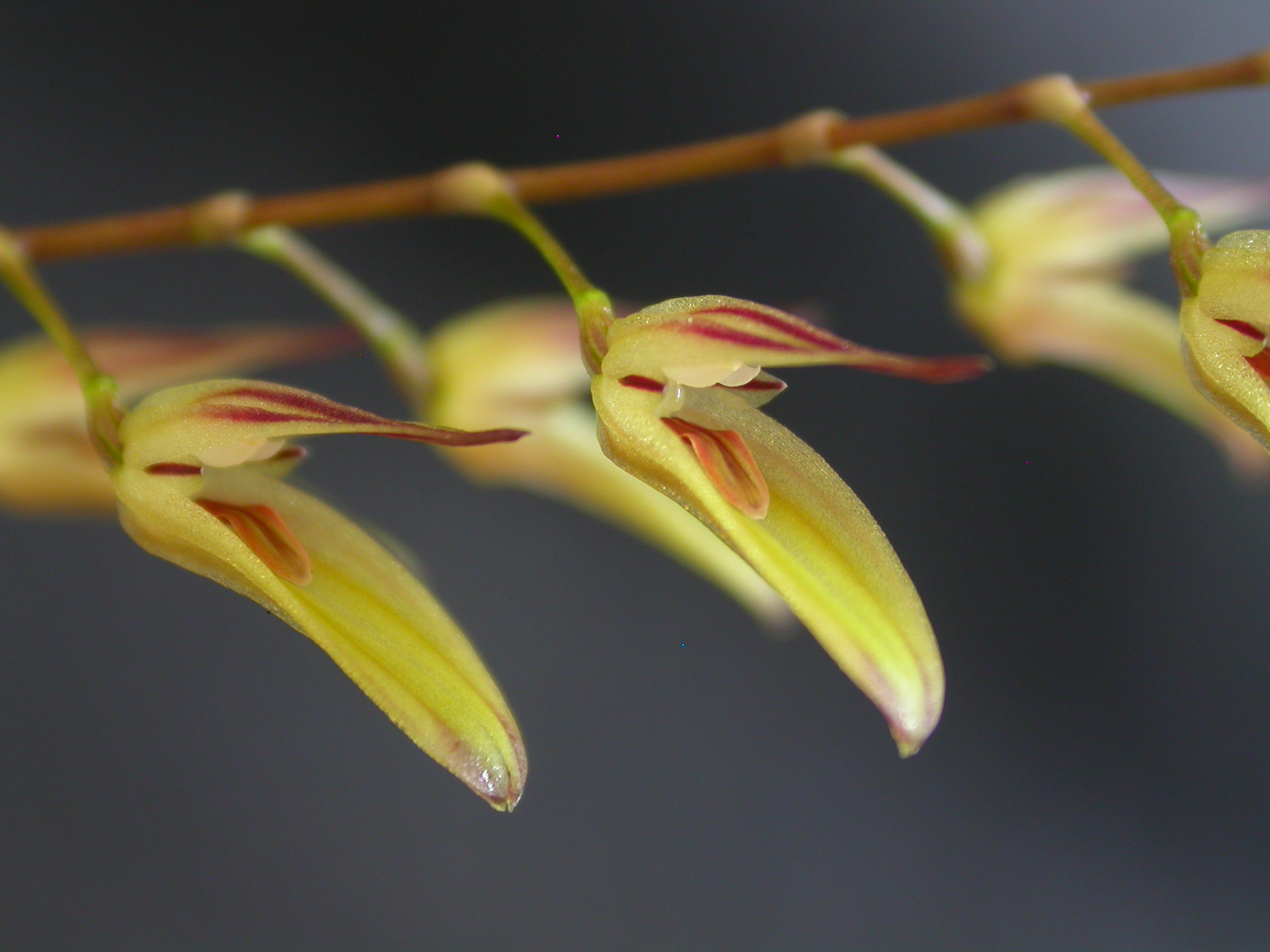 Specklinia grobyi